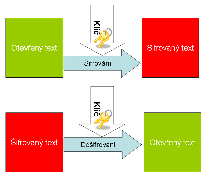 Symmetric-key algorithm axiom in Czech.